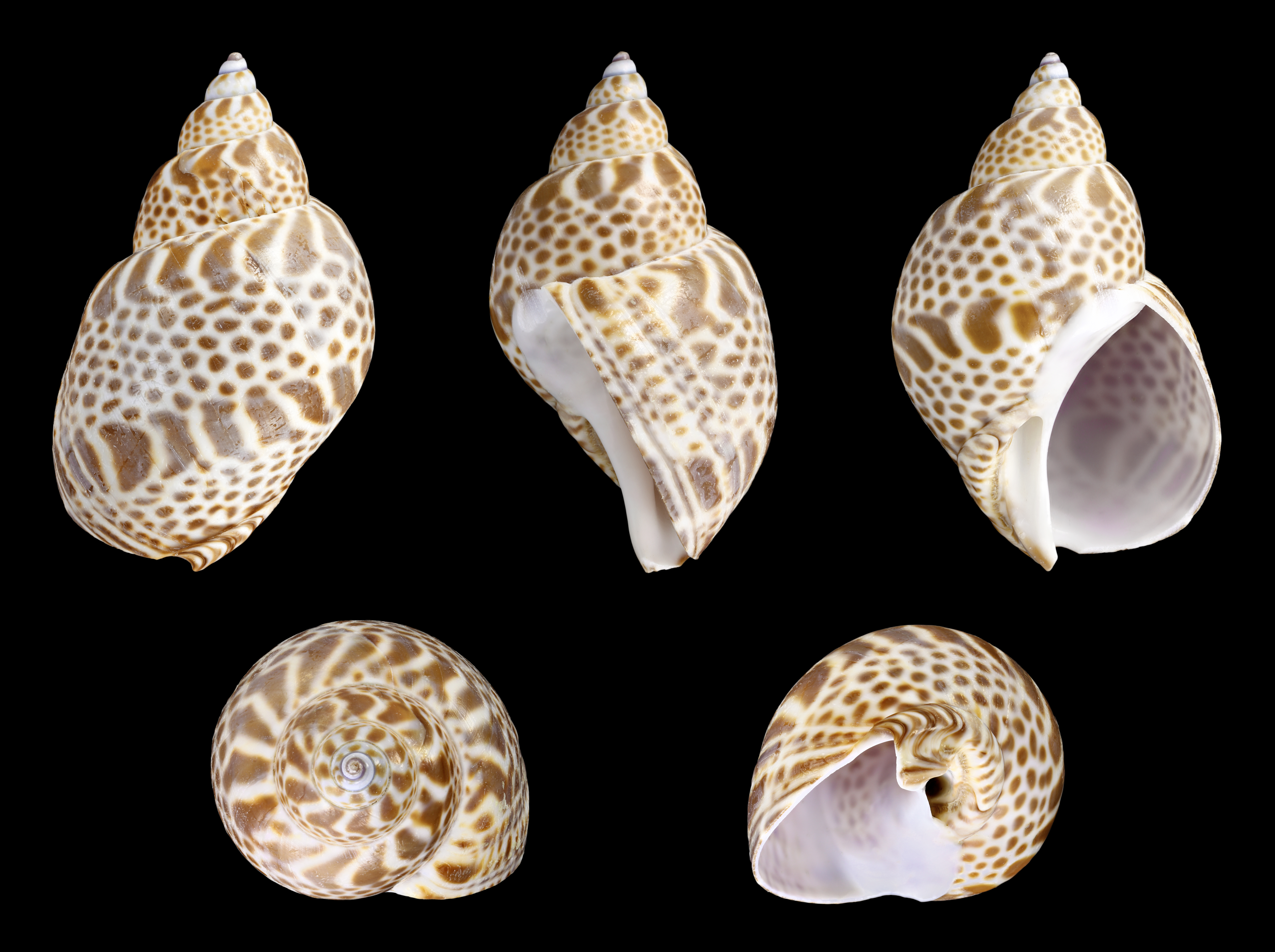 Babylonia japonica (Reeve, 1842), Japanese Babylon; Length 6.9 cm; Originating from Japan; Shell of own collection, therefore not geocoded.Dorsal, lateral (right side), ventral, back, and front view.